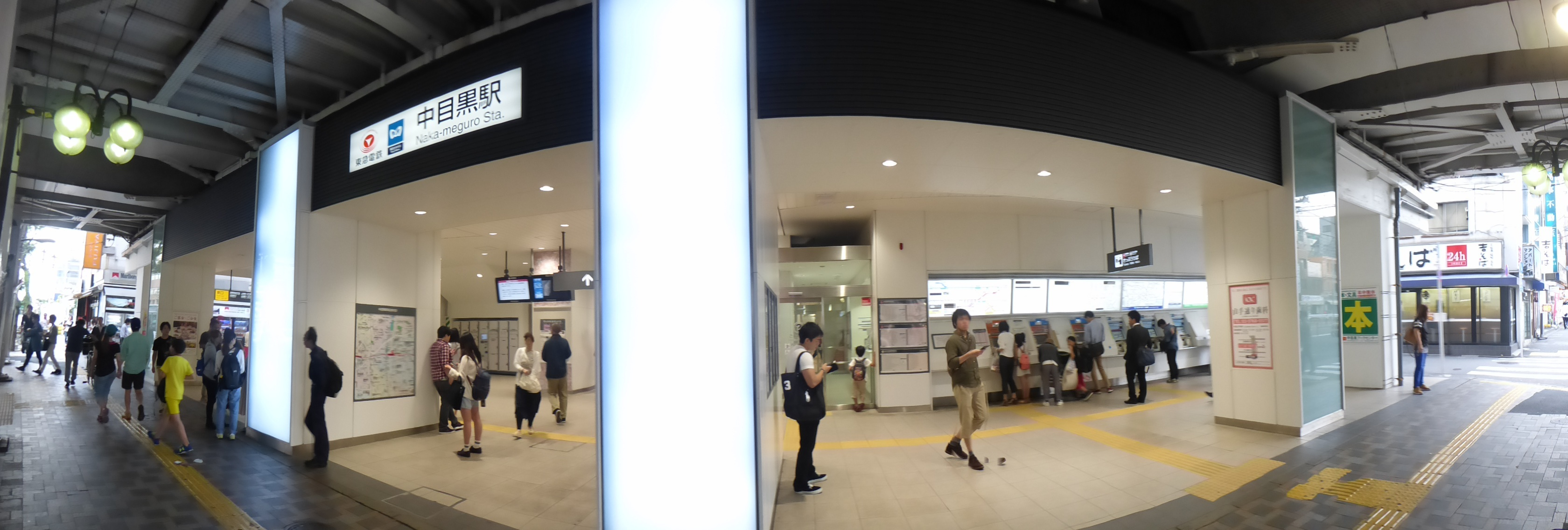 Panorama of Naka-Meguro Station's West and East exits